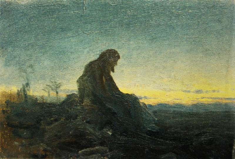 Christ in the Wilderness (painting by Ivan Kramskoi, study for the 1872 painting with the same name)